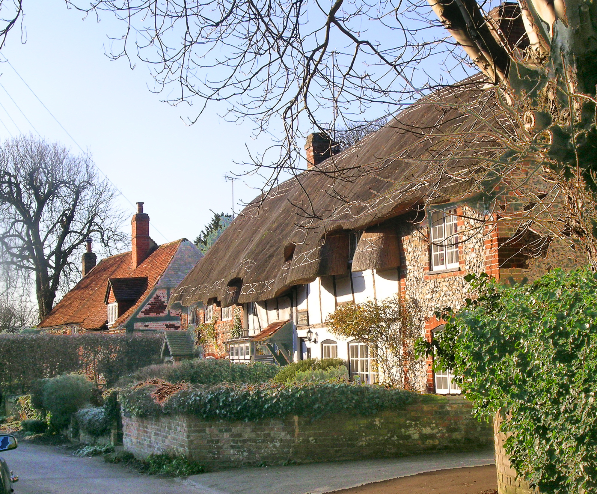 Old cottages in Burton Lane, Monks Risborough, Bucks